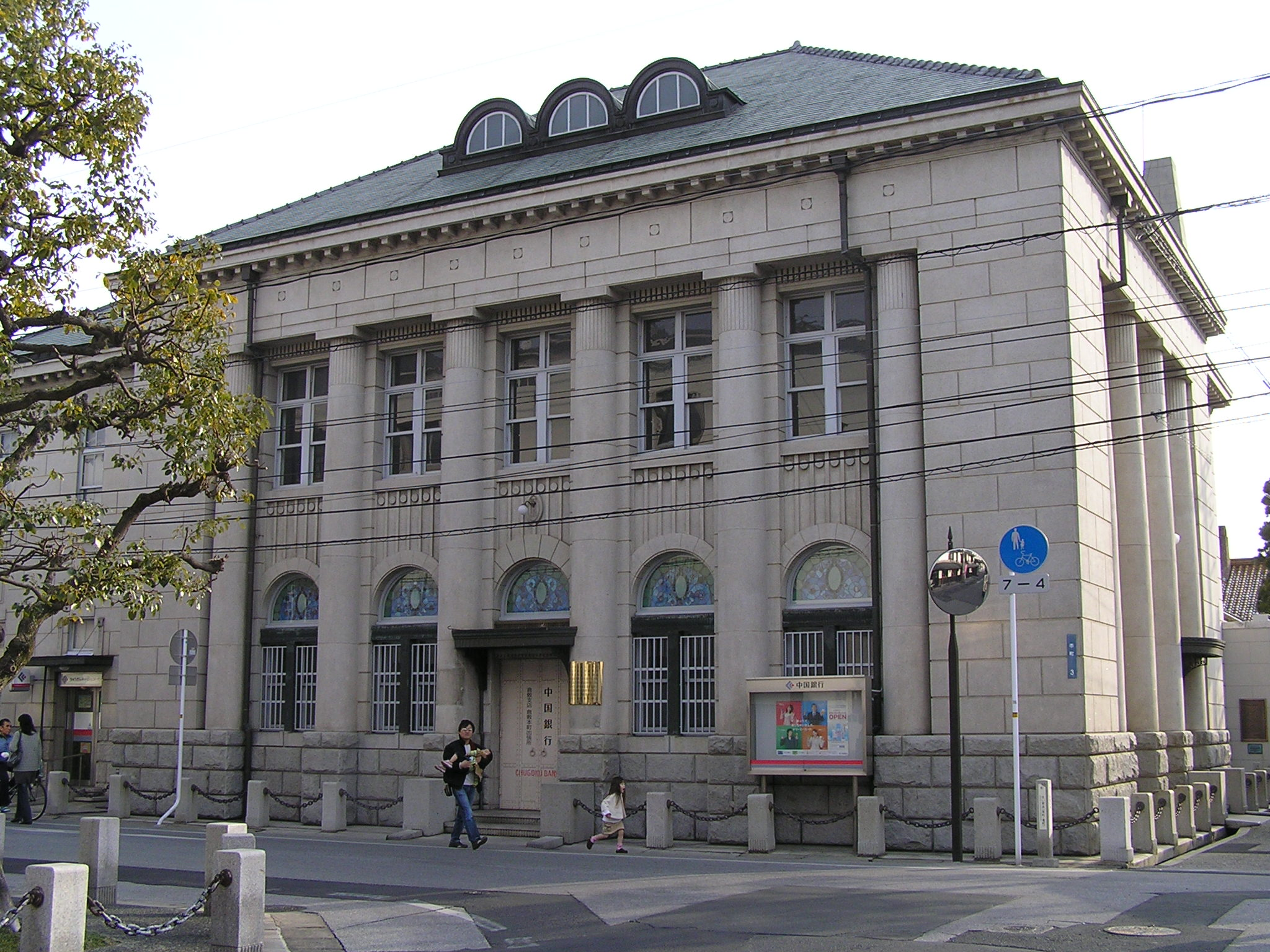 Chugoku Bank Kurashiki Hommachi liaison office